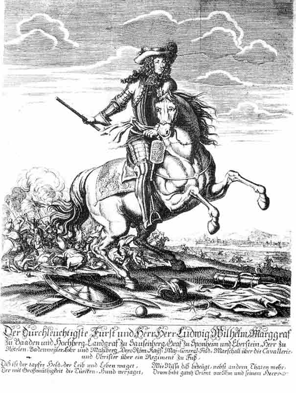 Louis William, Margrave of Baden (1655–1707), margarve of Baden, field marshal of Holy Roman Empire, victorious fighter agains the Ottoman Empire